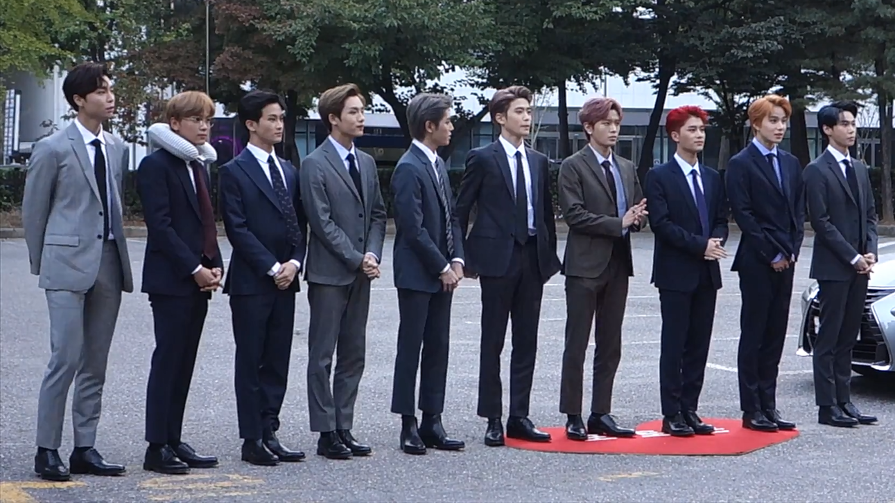 NCT 127 going to a Music Bank recording on October 12, 2018.